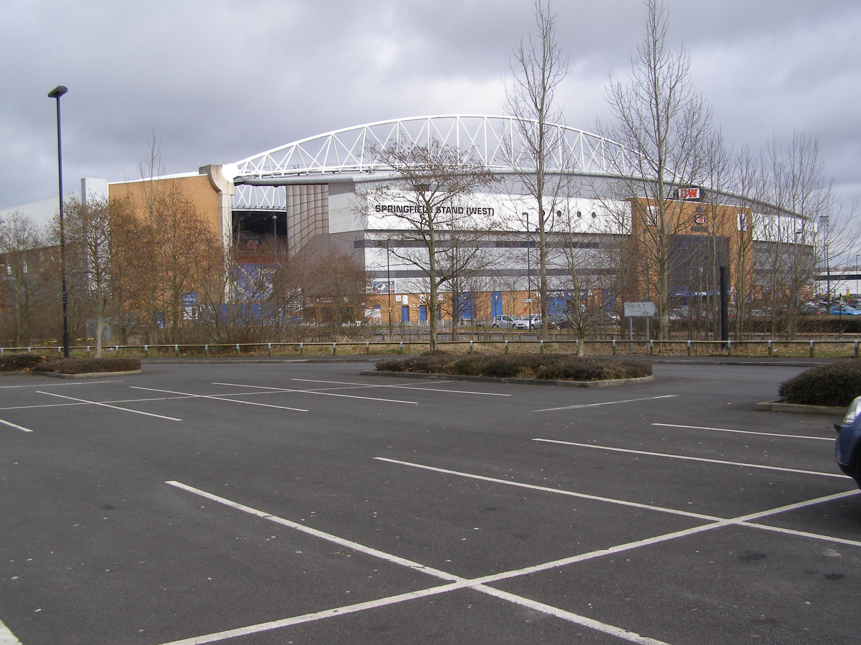 The DW Stadium